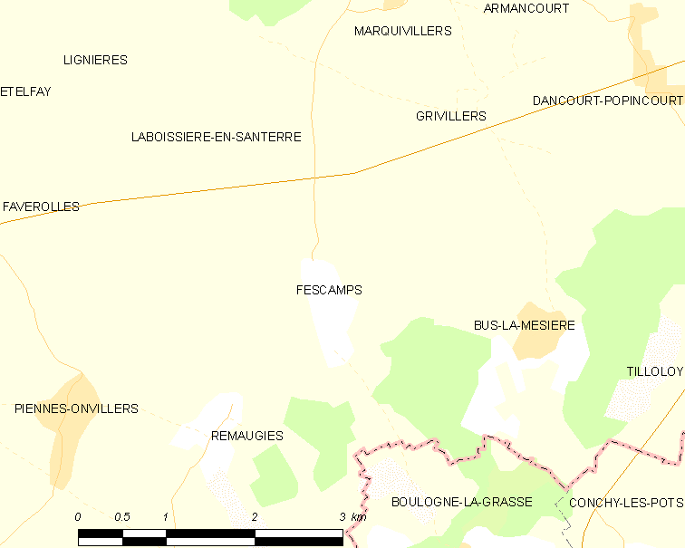 Map of French municipality Fescamps